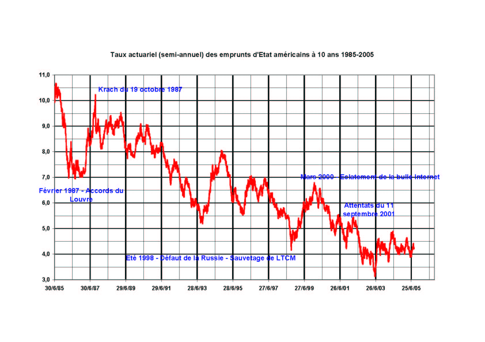 US 10y yields - in French